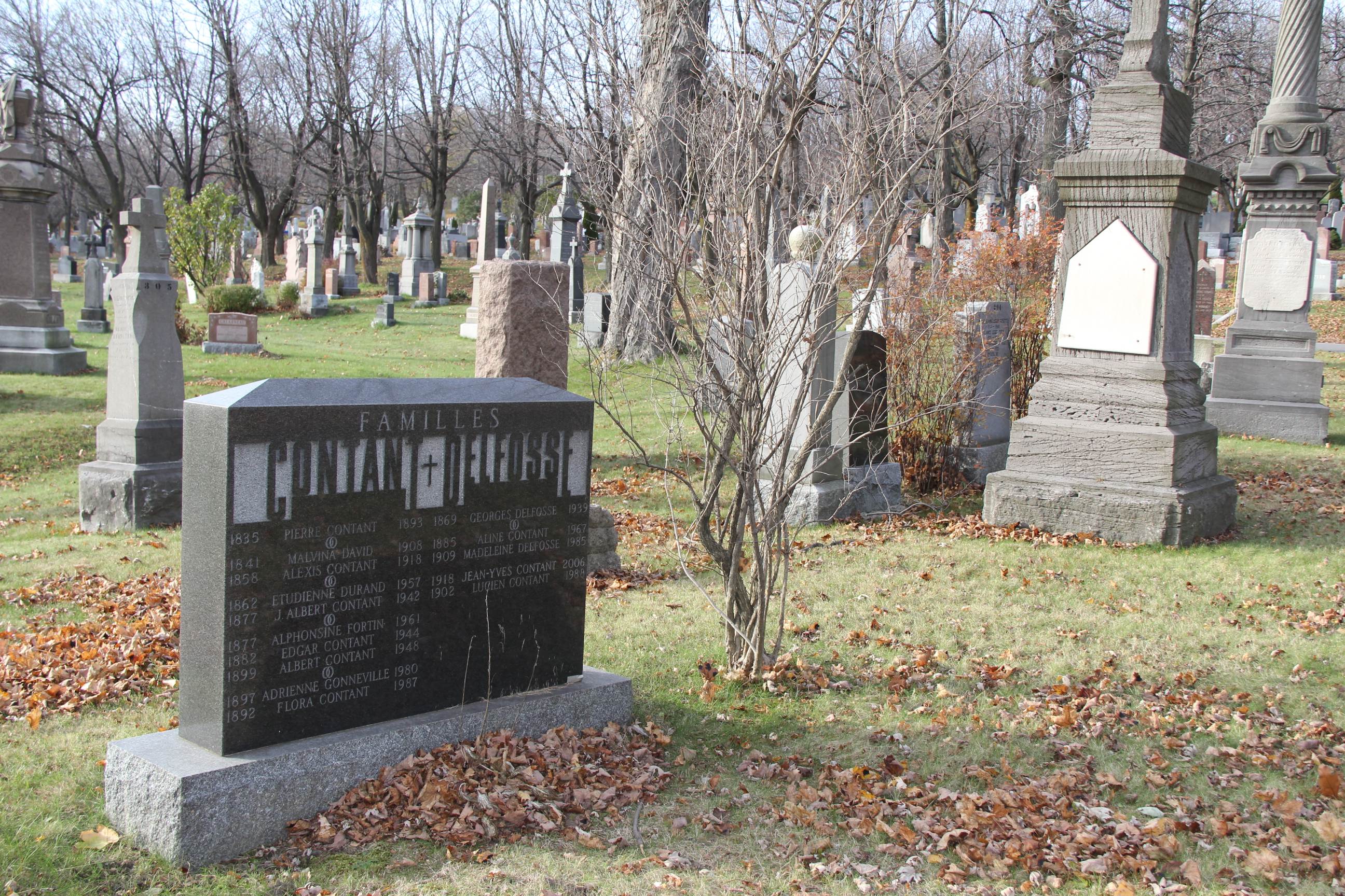 Georges Delfosse’s (1869-1939) tombstone, Notre-Dame-des-Neiges Cemetery (P259), Montreal.